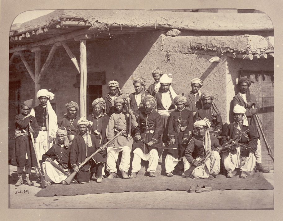 Kaubul Police. Photograph of Afghan policemen sporting long-barelled rifles, taken in Kabul, Afghanistan, by John Burke, 1879-80. Burke accompanied the British army into Afghanistan in 1878 and worked steadily in the hostile environment of Afghanistan and the North West Frontier Province, recording military and topographical scenes as well as the peoples of the country during the Second Afghan War (1878-80). Burke also photographed many darbars or meetings that took place between British combat leaders and Afghan chiefs which led to the uneasy peace treaties characteristic of the campaign. His two-year Afghan expedition produced a visual document which resulted in his achieving significance as the photographer of the region of the Great Game (concerning Anglo-Russian territorial rivalry). In the winter of 1879, through to the summer of 1880, the British force called the Kabul Field Force occupied Kabul. Its commander General Roberts was tasked with securing Kabul and maintaining lines of communication via the Khyber Pass with the rest of the British forces, meanwhile negotiations to bring an end to the war and place a new Amir on the throne of Kabul were going on. Burke spent many months in Kabul and took a series of images of its diverse residents.